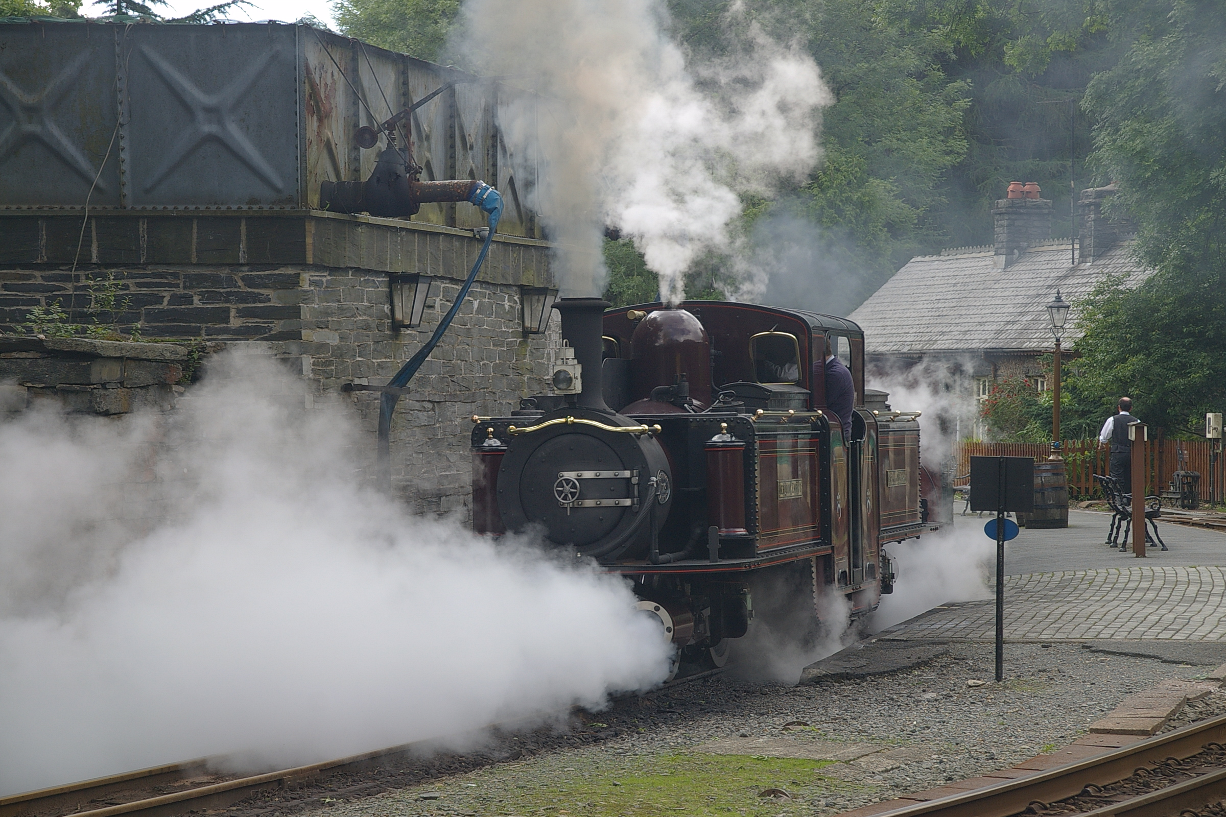 Ffestiniog Railway locomotive Merddin Emrys at Tan-y-Bwlch railway station.